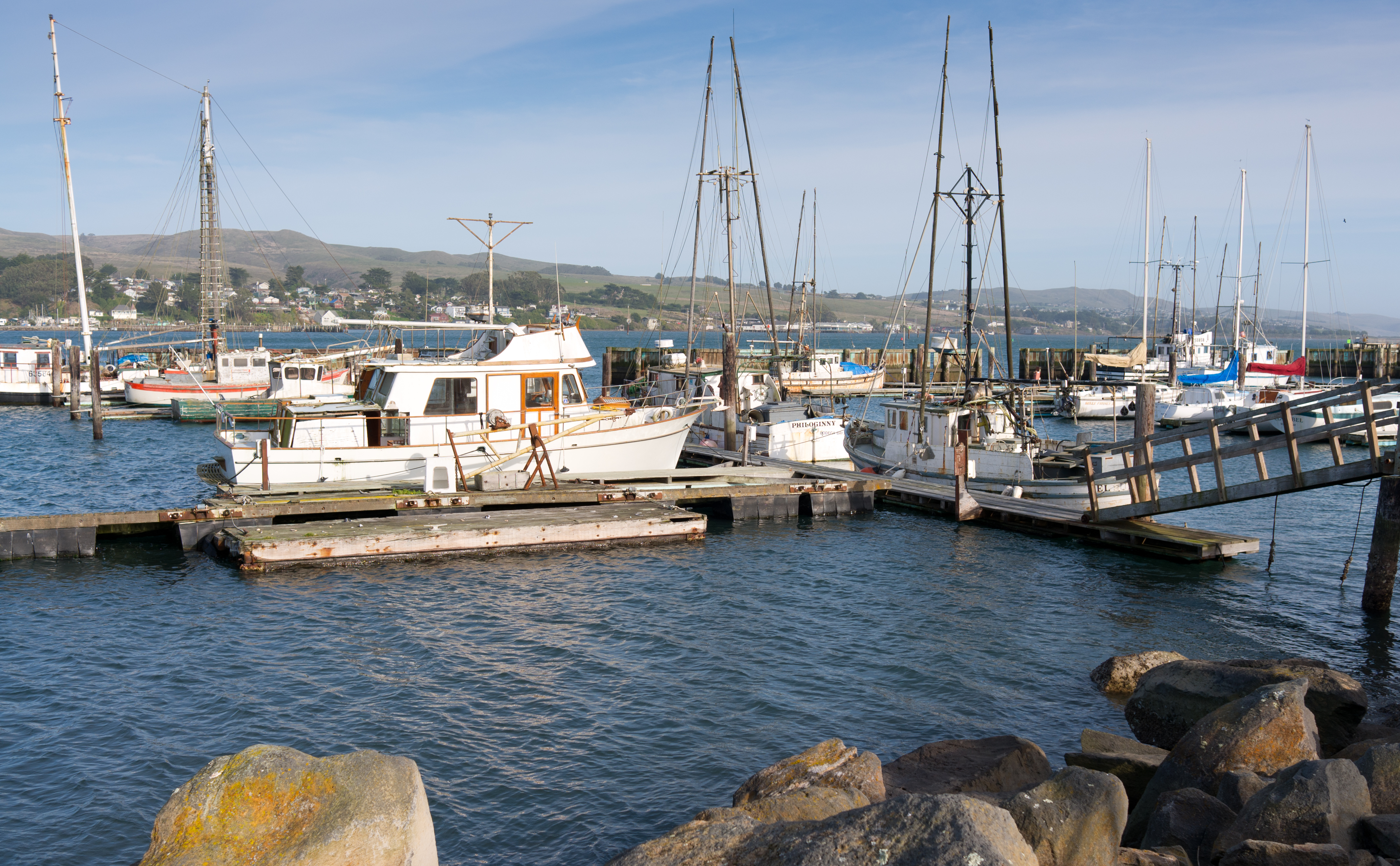 Fishingboats at Bodega Harbor, Sonoma, California.